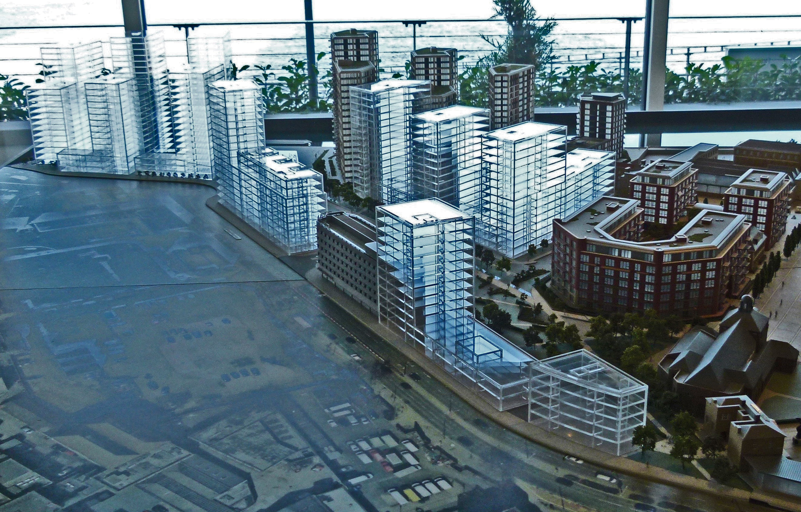 Scale model of the Waterfront construction site at Royal Arsenal Riverside, Woolwich, South East London, UK.